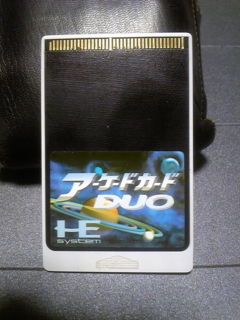 PC Engine ArcadeCard DUO